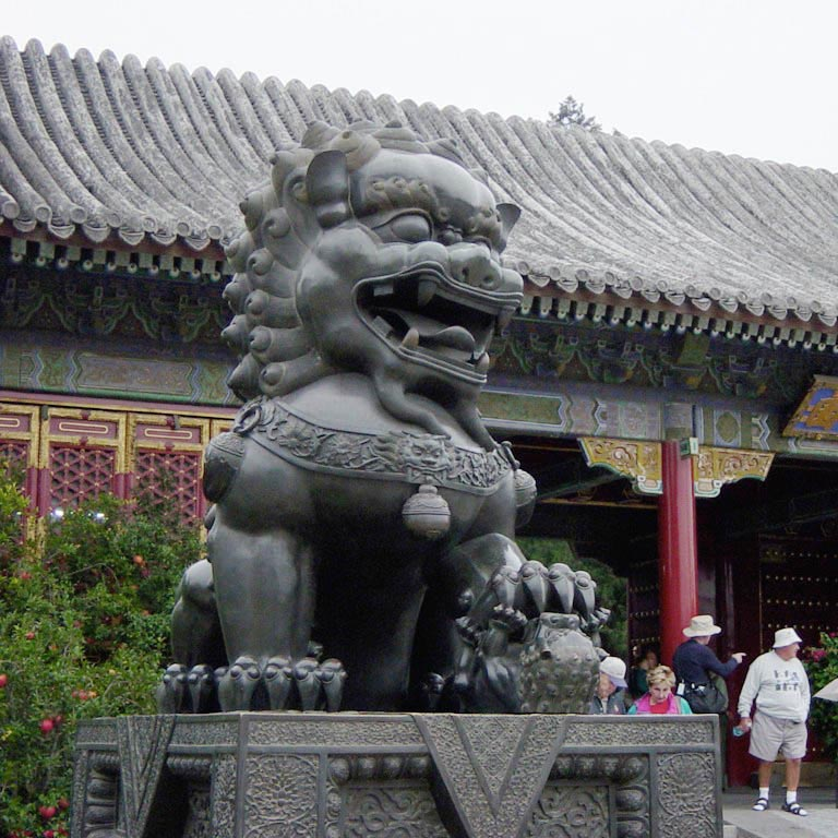 Imperial mother lion guard at the Summer Palace of the Dowager Empress Cixi, Beijing, China. For detail of cub see :Image:ImperialLionCub.jpg. Taken, copyright, and uploaded by Leonard G.